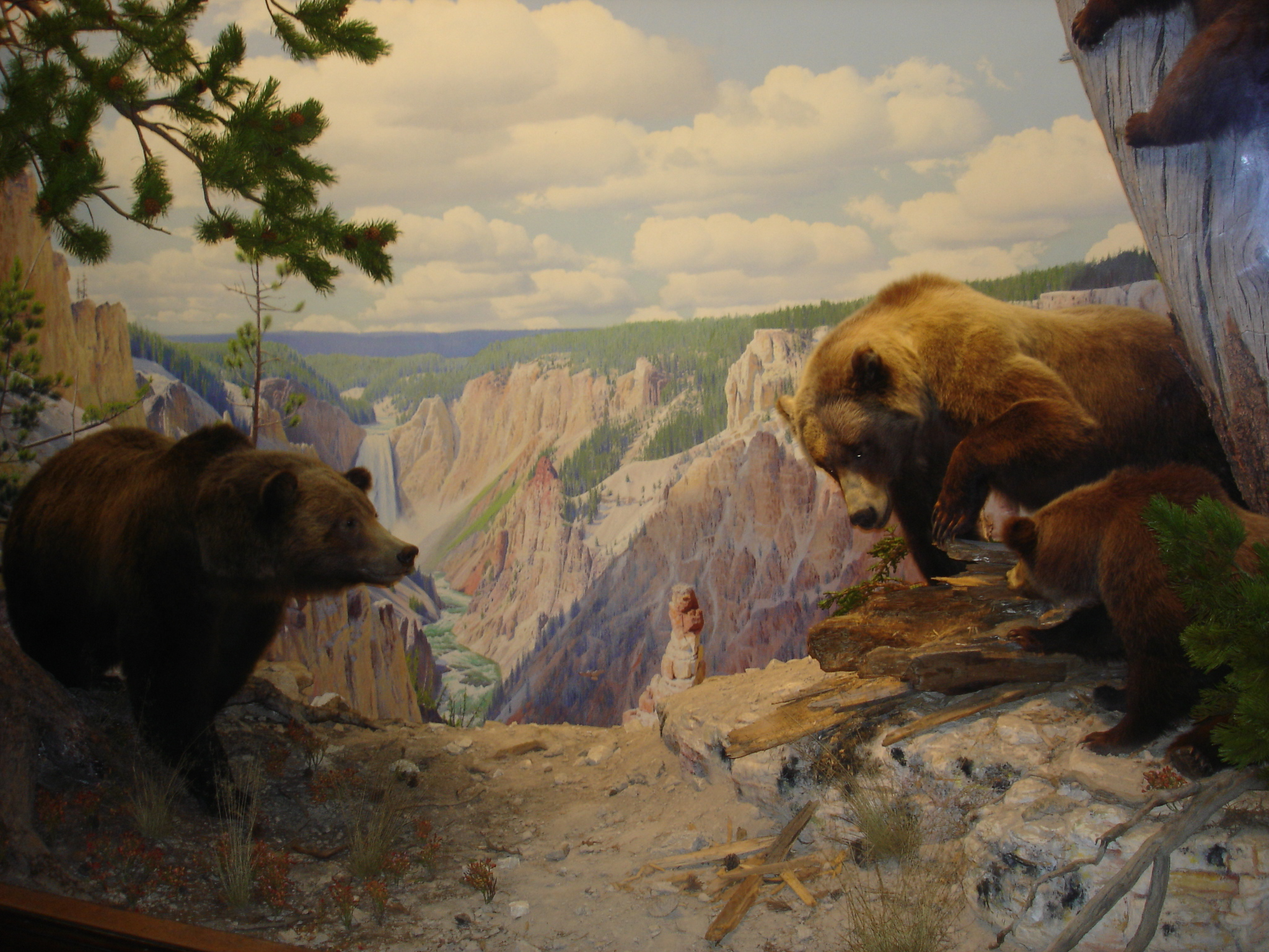 If you like these picture visit our blog at Travel Tipsor where you can connect with us via our social networks. You will also find awesome travel posts for some of the most famous world destinations. The American Museum of Natural History (abbreviated as AMNH), located on the Upper West Side of Manhattan in New York City is one of the largest and most celebrated museums in the world.